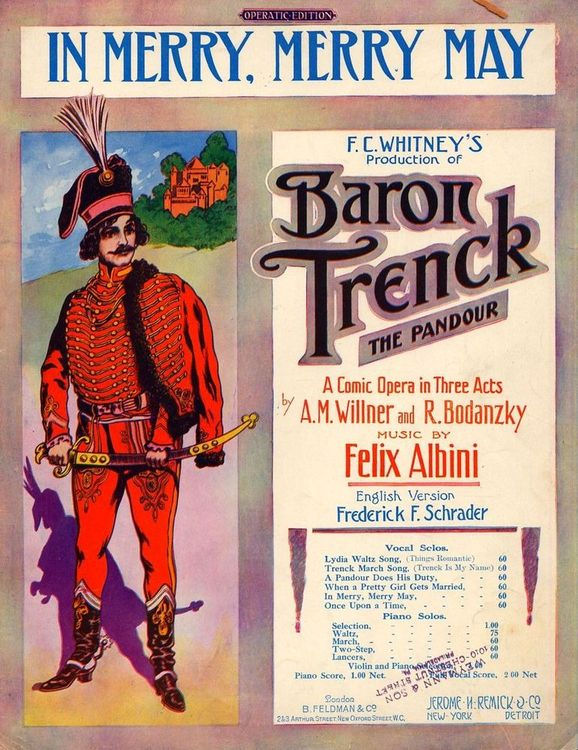 Vocal score for "In Merry, Merry Way!" from the opera Baron Trenck (1911)